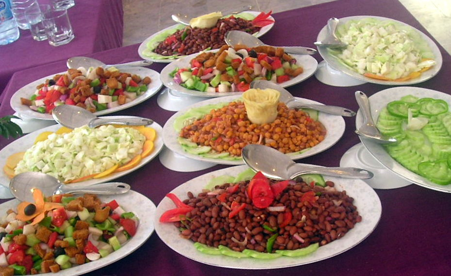 I loved the food. Especially the long-grained basmati rice. Olympus Camedia (G20 Parallel People's Conference, September 2005). Slightly improved with Picasa.